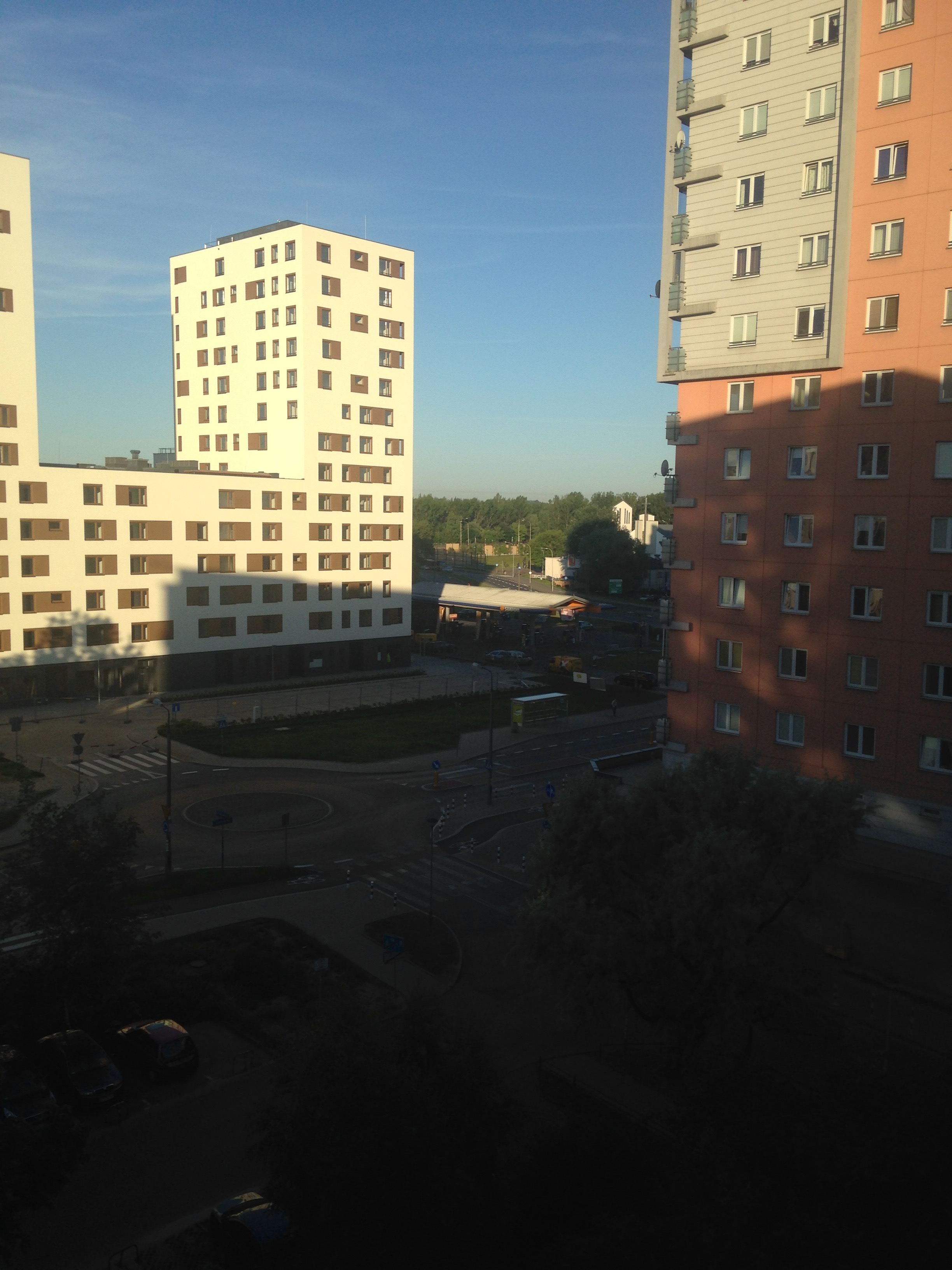 Blocks of flats in Gocław